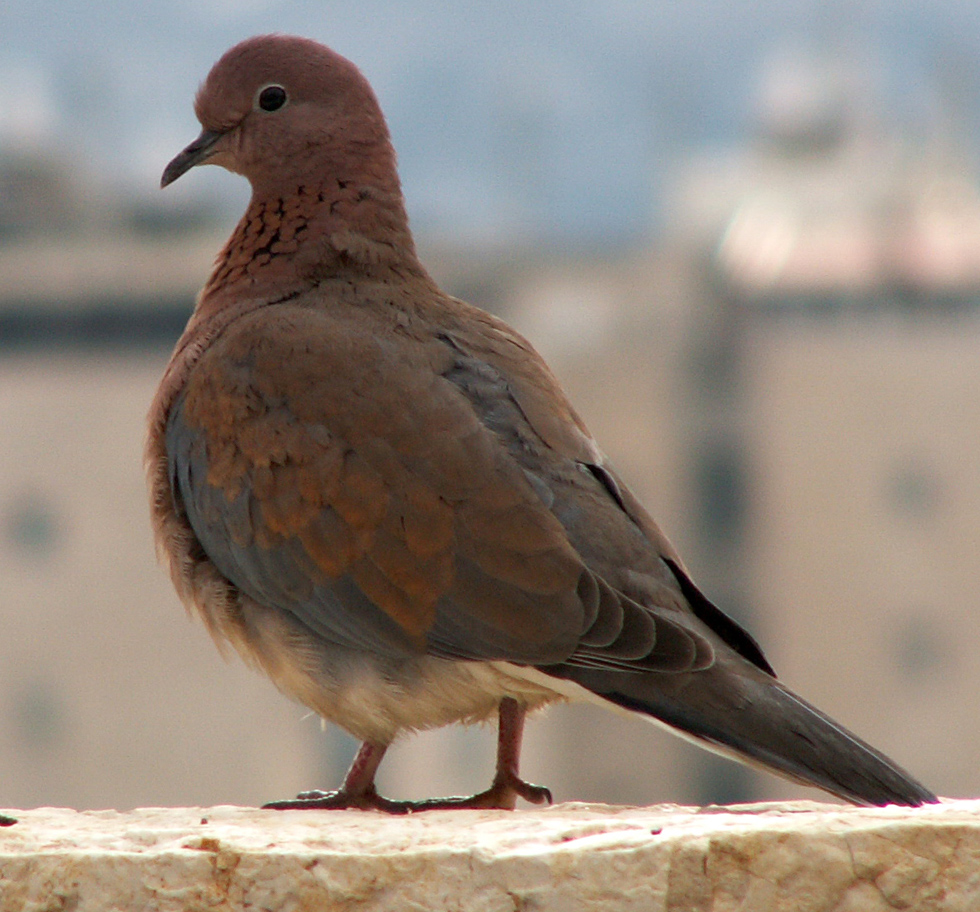 Laughing Dove, Streptopelia senegalensis. Photo by Ofer Faigon. Taken in Jerusalem, Israel, 23-Dec-2005.